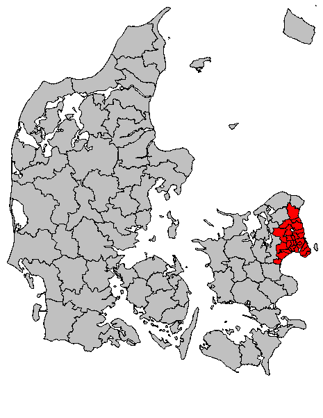 A map of Denmark with the urban area of Copenhagen highlighted (red).